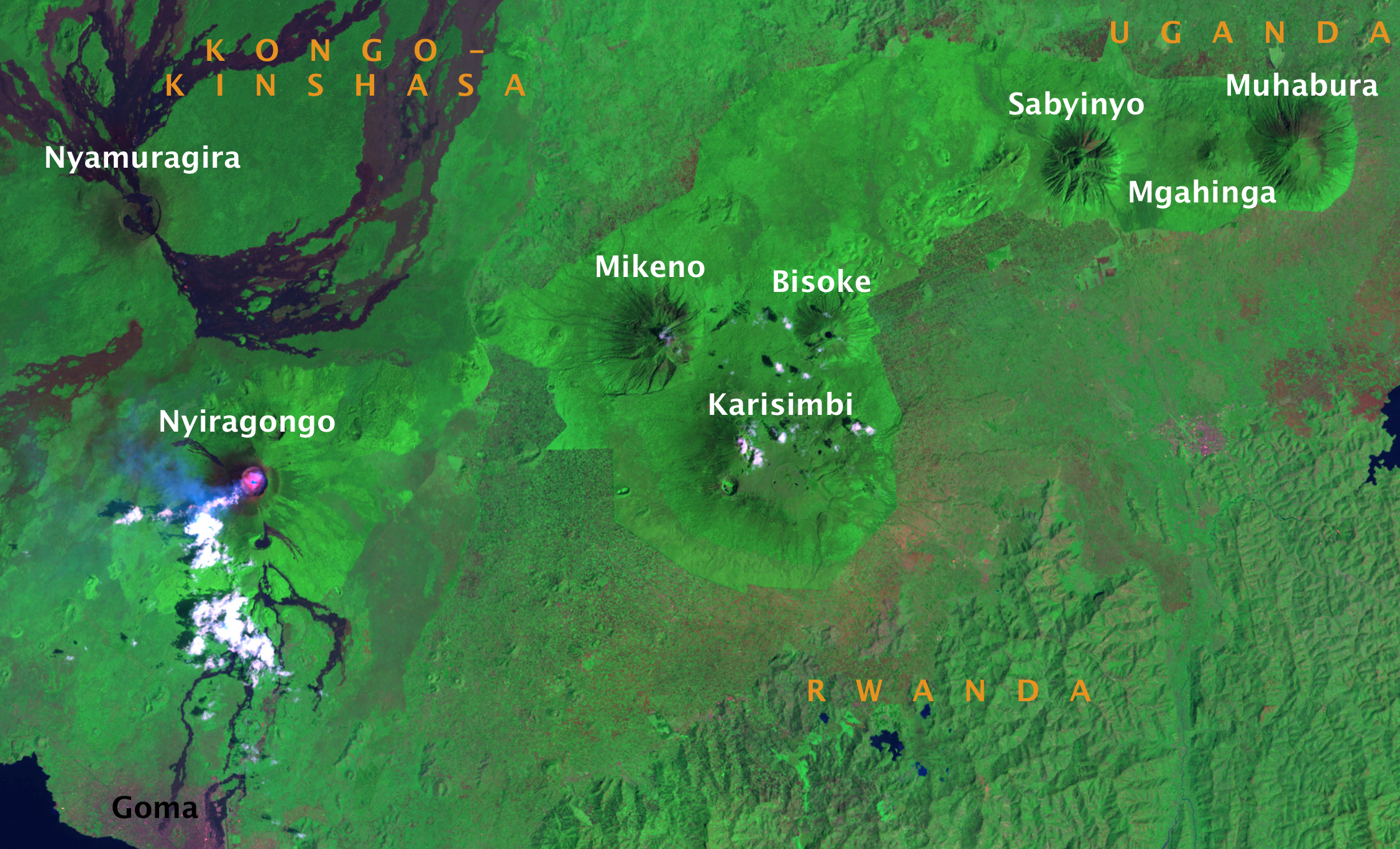 The Virunga Mountains marked on a false image Landsat photo from 2007. Built-up areas are violet, lava streams and water surfaces (like Lake Kivu down left) in dark violet/black, the hot lava lake in Nyiragongo in blue and pink. The outer limits of the national parks of the three countries are clearly marked, as they coincide with the sharp line where the rain forest (light green) and cultivated land etc (middle green) meet. The lava streams/fields of Nyiragongo (towards Goma) and Nyamuragira (in all directions) are clearly marked.